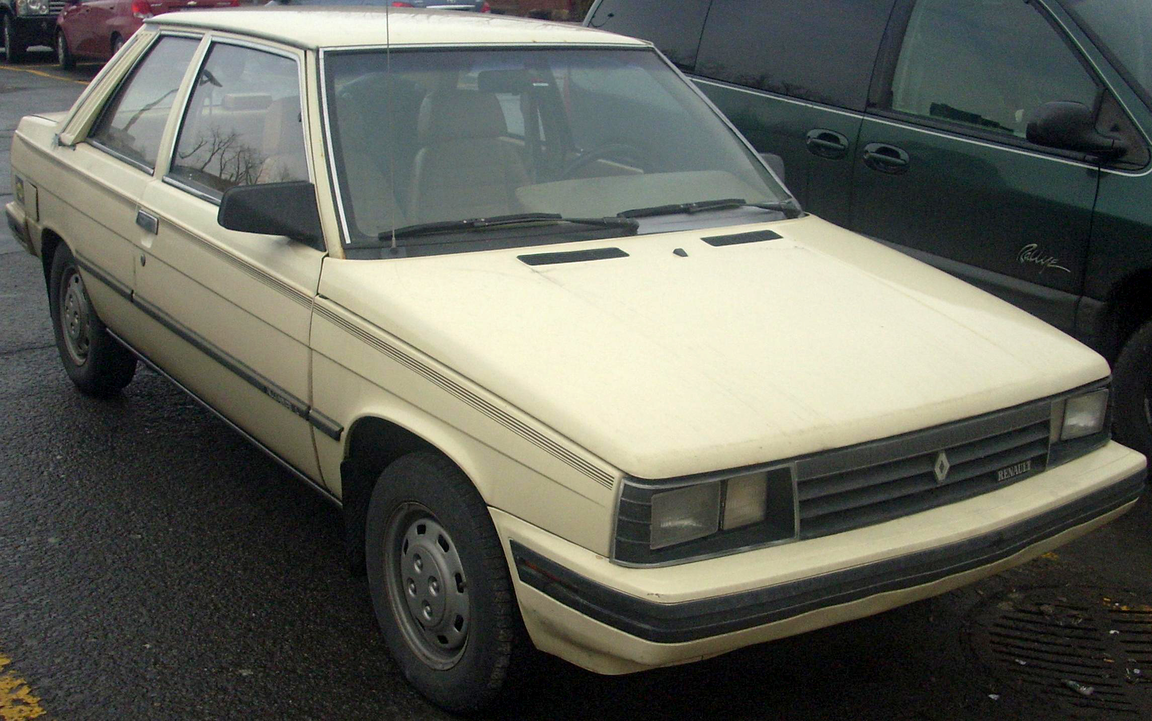 1987 Renault Alliance photographed in Beaconsfield, Quebec, Canada.